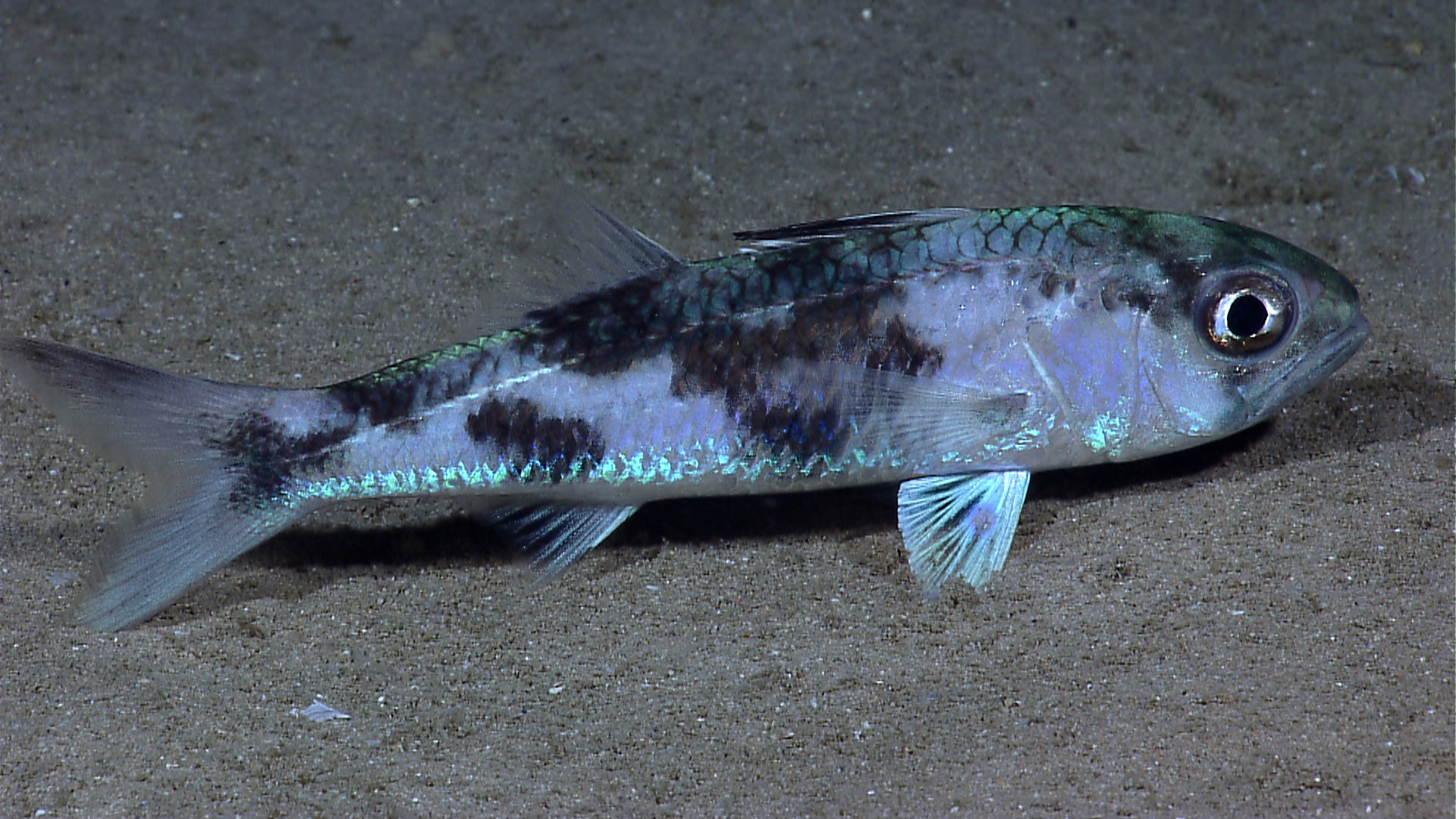 Deep sea fish - Blackmouth bass (Synagrops bellus) Image ID: expl7061, Voyage To Inner Space - Exploring the Seas With NOAA Collect Location: Gulf of Mexico, North Credit: NOAA Okeanos Explorer Program, Gulf of Mexico 2012 Expedition